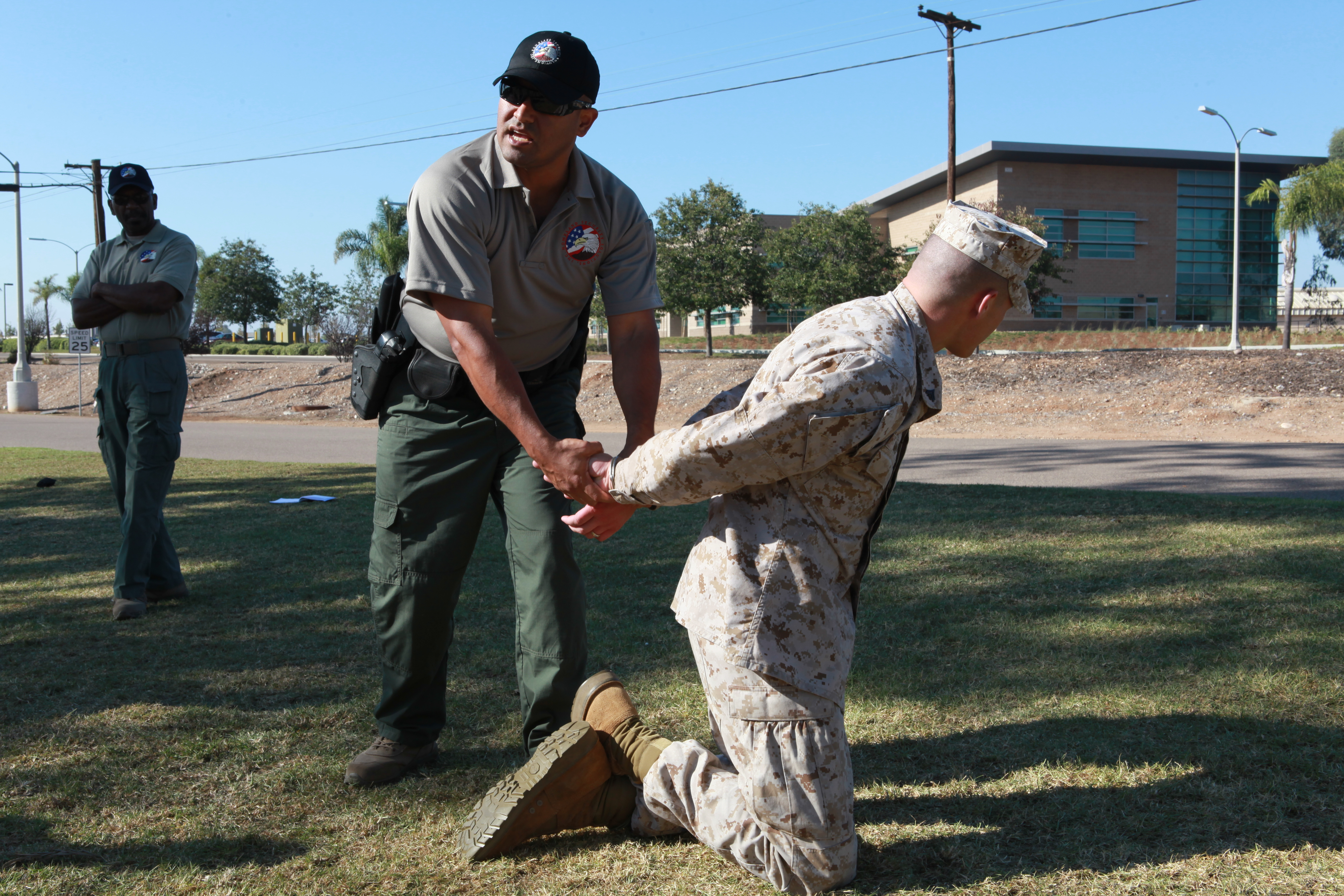 Jose Maldonado, left, the lead instructor of defensive tactics and handcuff training and a Houston native, demonstrates the proper procedure to handcuff a non-compliant detainee on Cpl. Michael Davis, a military working dog handler with Headquarters and Headquarters Squadron and a Klamath Falls, Ore., native, aboard Marine Corps Air Station Miramar, Calif., Nov. 1. Maldonado rehearsed various take-down maneuvers and handcuffing a detainee in different situations with Miramar military police officers.